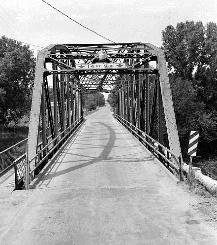 Portals and end post looking north